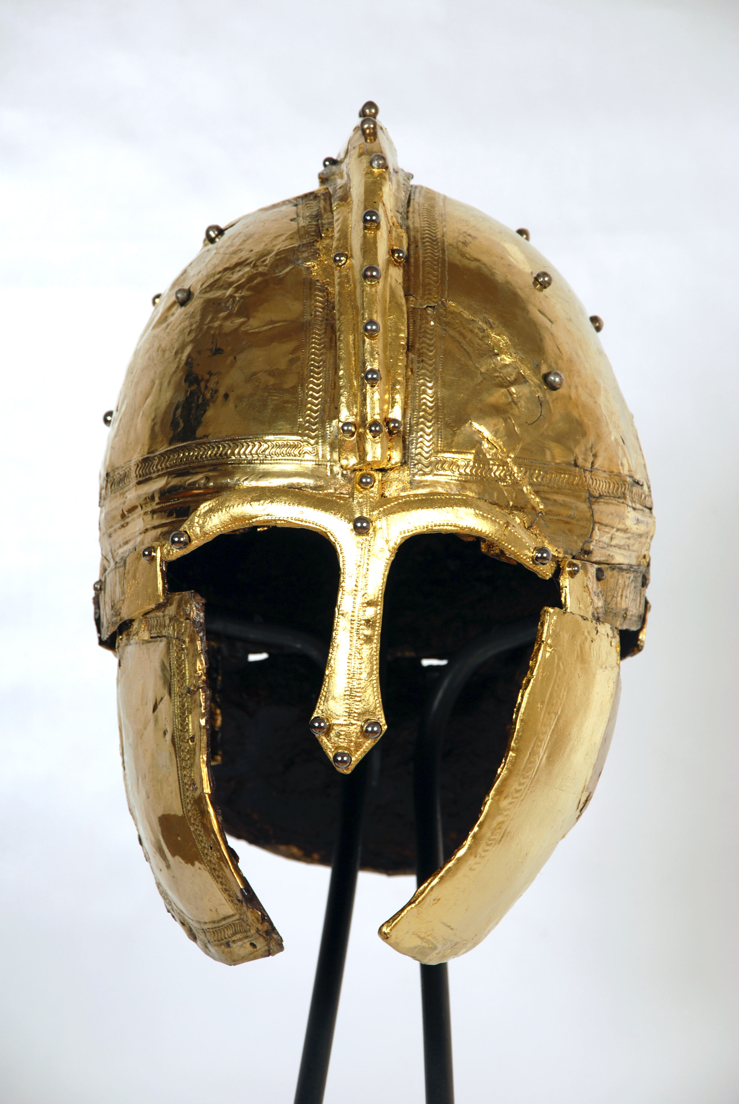 Late Roman helmet (Berkasovo/2), Berkasovo type, early 4th century. Found in 1955 near the village of Berkasovo (Šid, Vojvodina, Serbia) Srpski (latinica): Kasnoantički rimski šlem (Berkasovo/2), tip Berkasovo, druga decenija 4. veka. Pronađen 1955. u okolini sela Berkasovo kod Šida